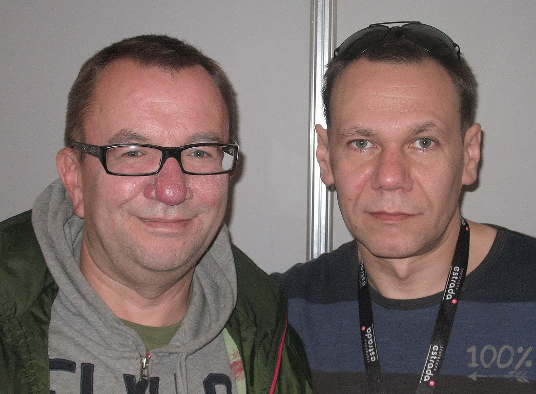 Rafał i Jacek Bryndal (2009)